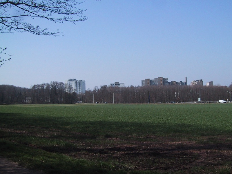 Darmstadt-Kranichstein seen from eastern side.